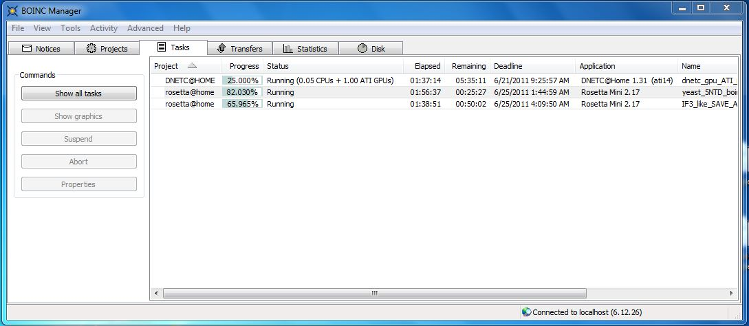 Screenshot of BOINC running two CPU applications and 1 GPU application.